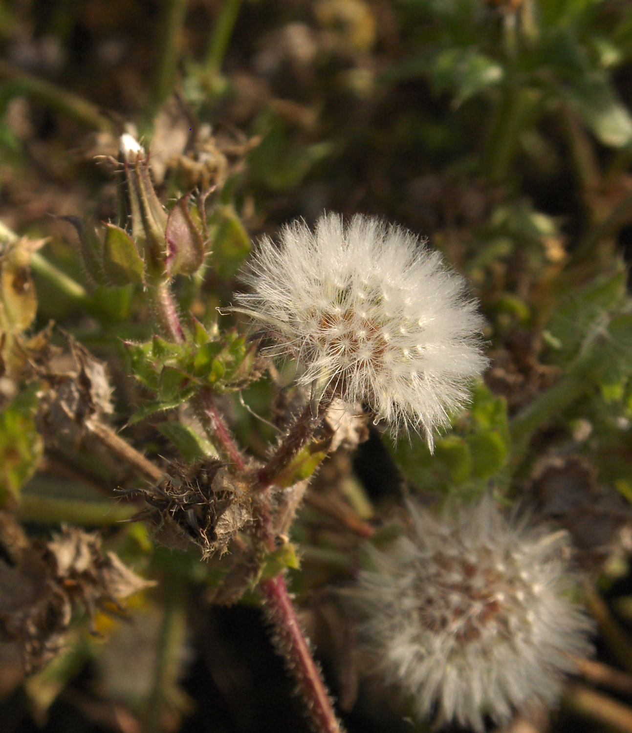 Infructescence of Picris echioides